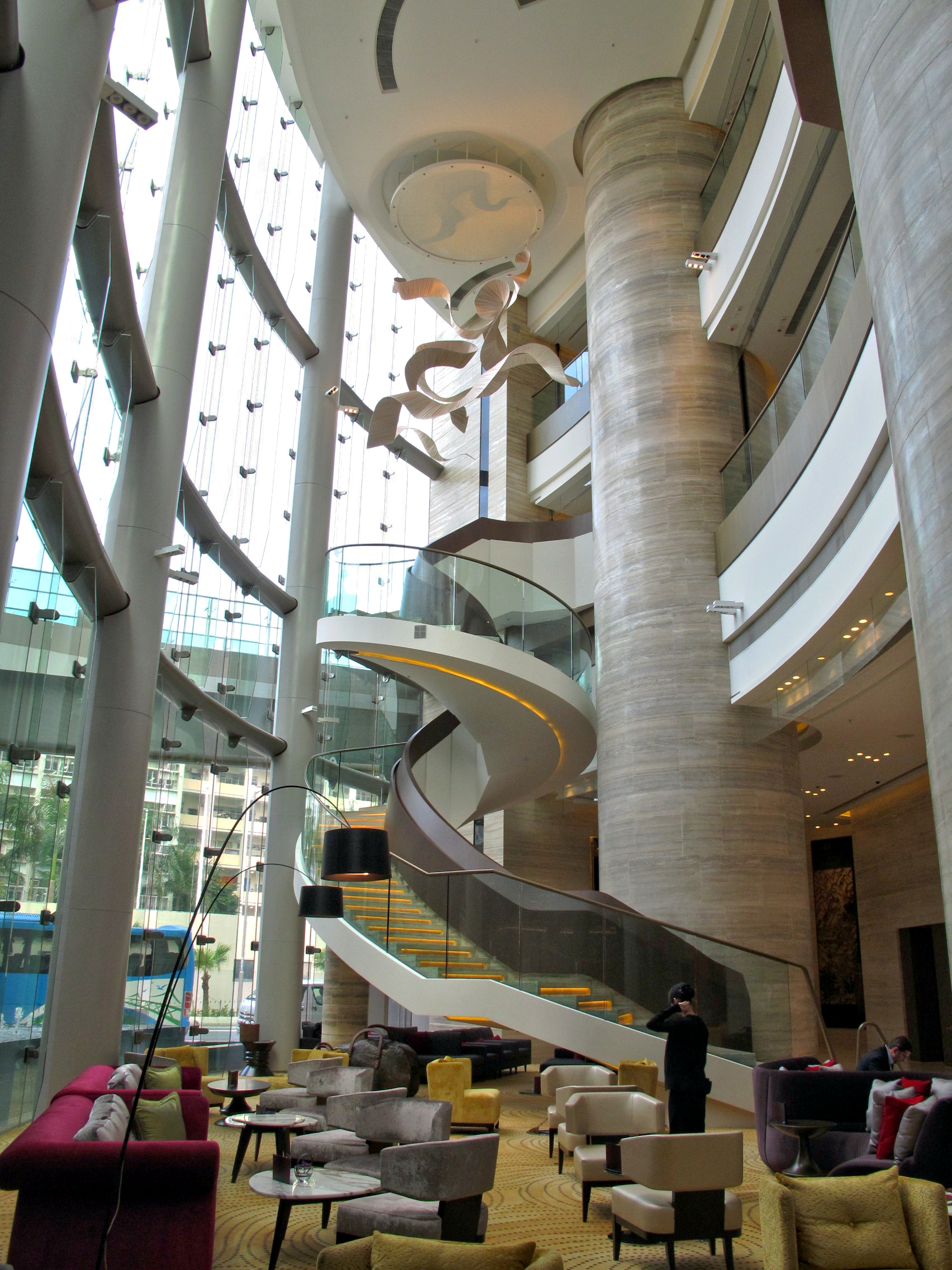 Crowne Plaza Hong Kong Kowloon East 香港九龍東皇冠假日酒店